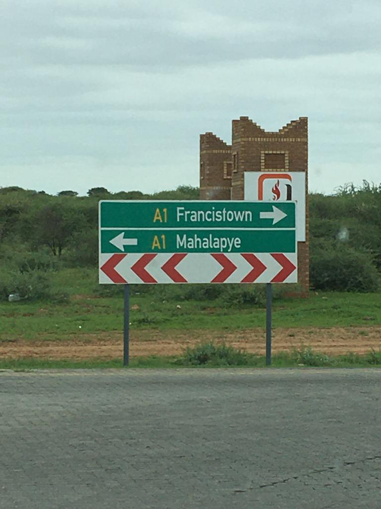 Left to Mahalapye, right to Francistown This is an image with the theme "Africa on the Move or Transport" from: Botswana